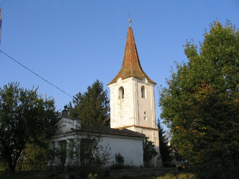 Unitarian Church - Kökös (Chichis)